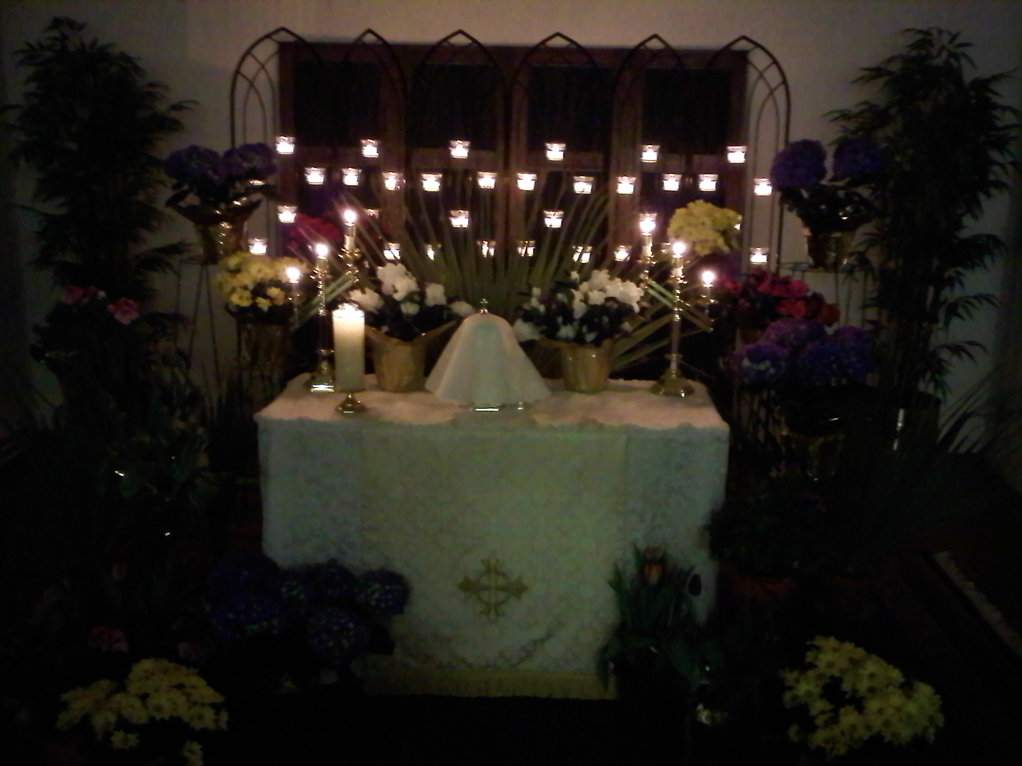 The Altar of Repose at St James Episcopal Church, Columbus, Ohio following Maundy Thursday services during Holy Week 2009.